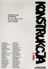 scan of the original poster for the exhibition "Construction in Process" in Lodz, Poland